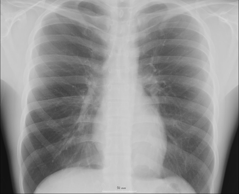 An X-ray photo of my chest. A sample of normal heart and lung. Screenshot of DICOM image.